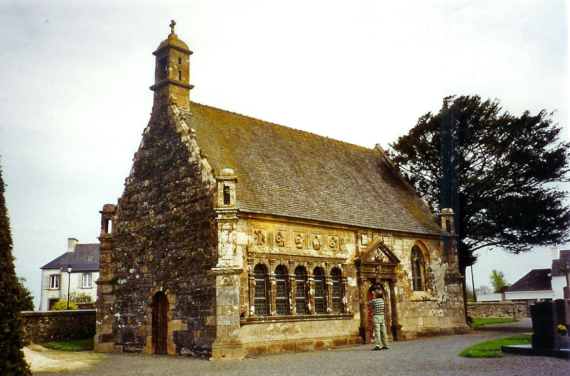 Ossarium of Ploudiry, Bretagne, France